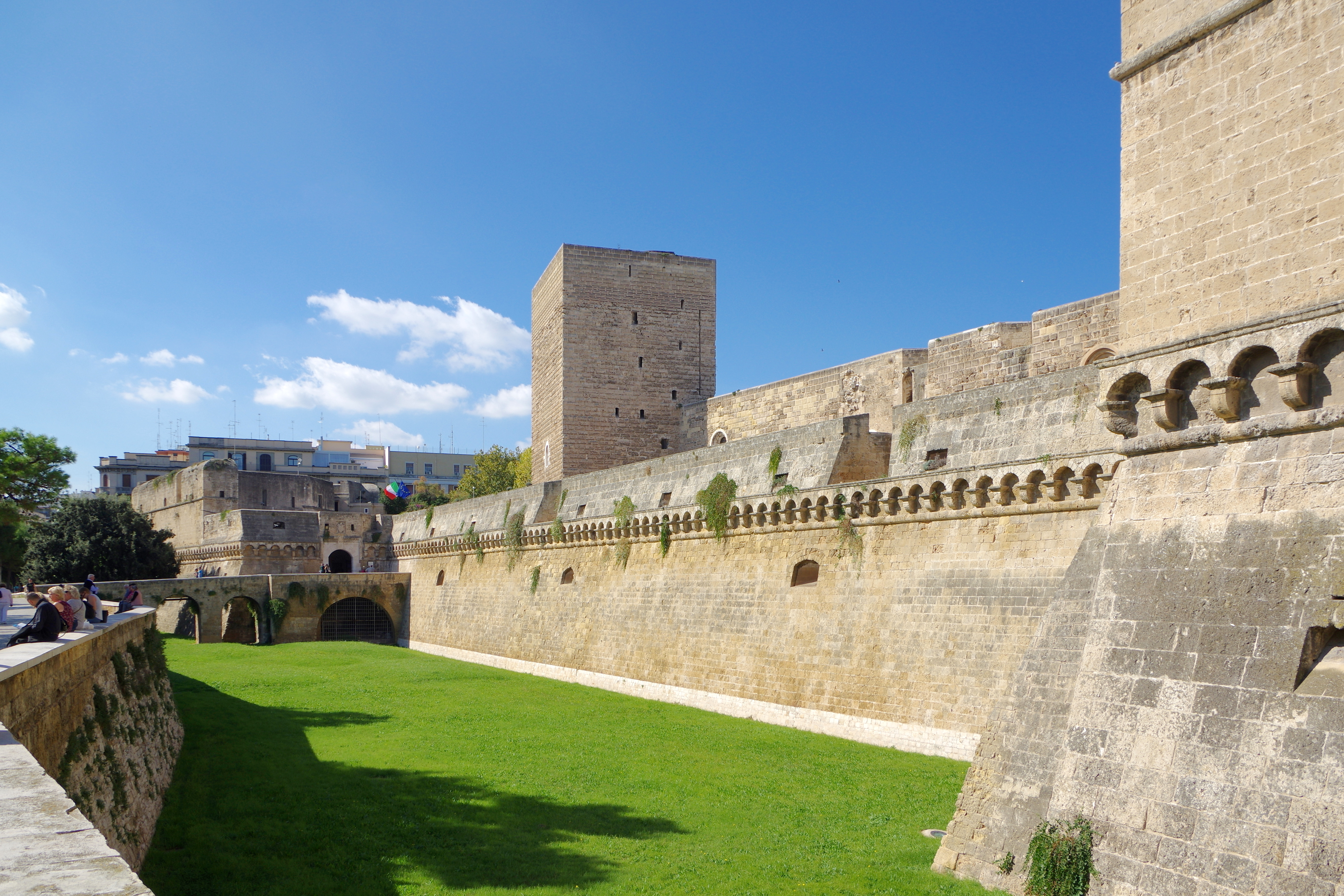 Italy, Bari, castle